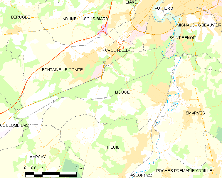 Map of French municipality Ligugé